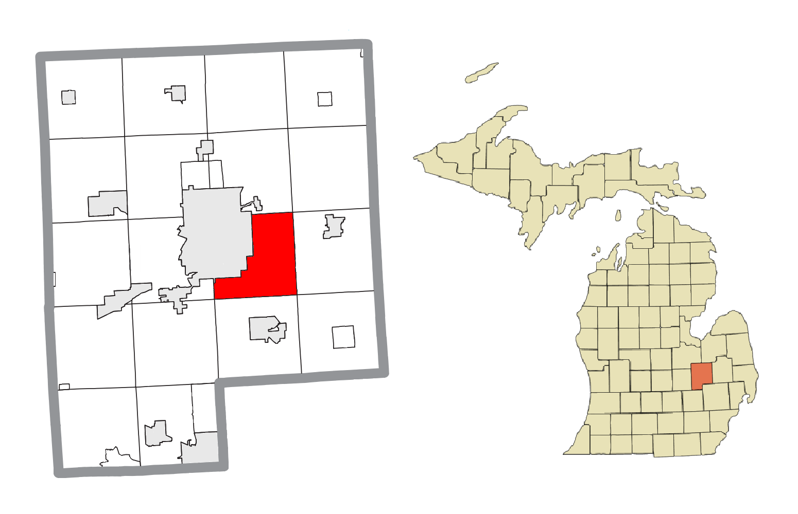 Burton, MI